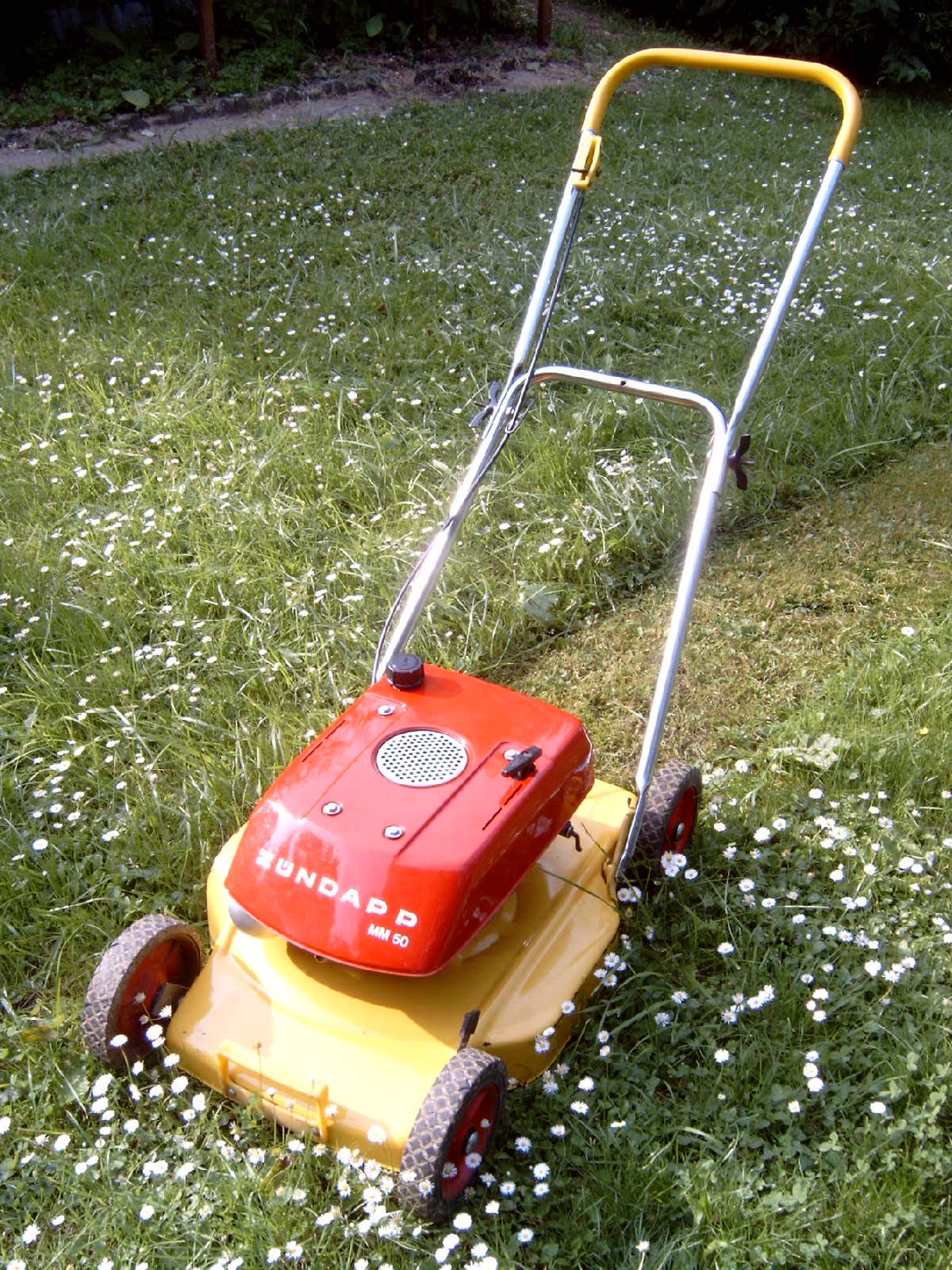 my lawn mower Zündapp MM50 at work.